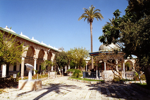 Picture taken in Akko (Ottoman mosque and garden - Israel).